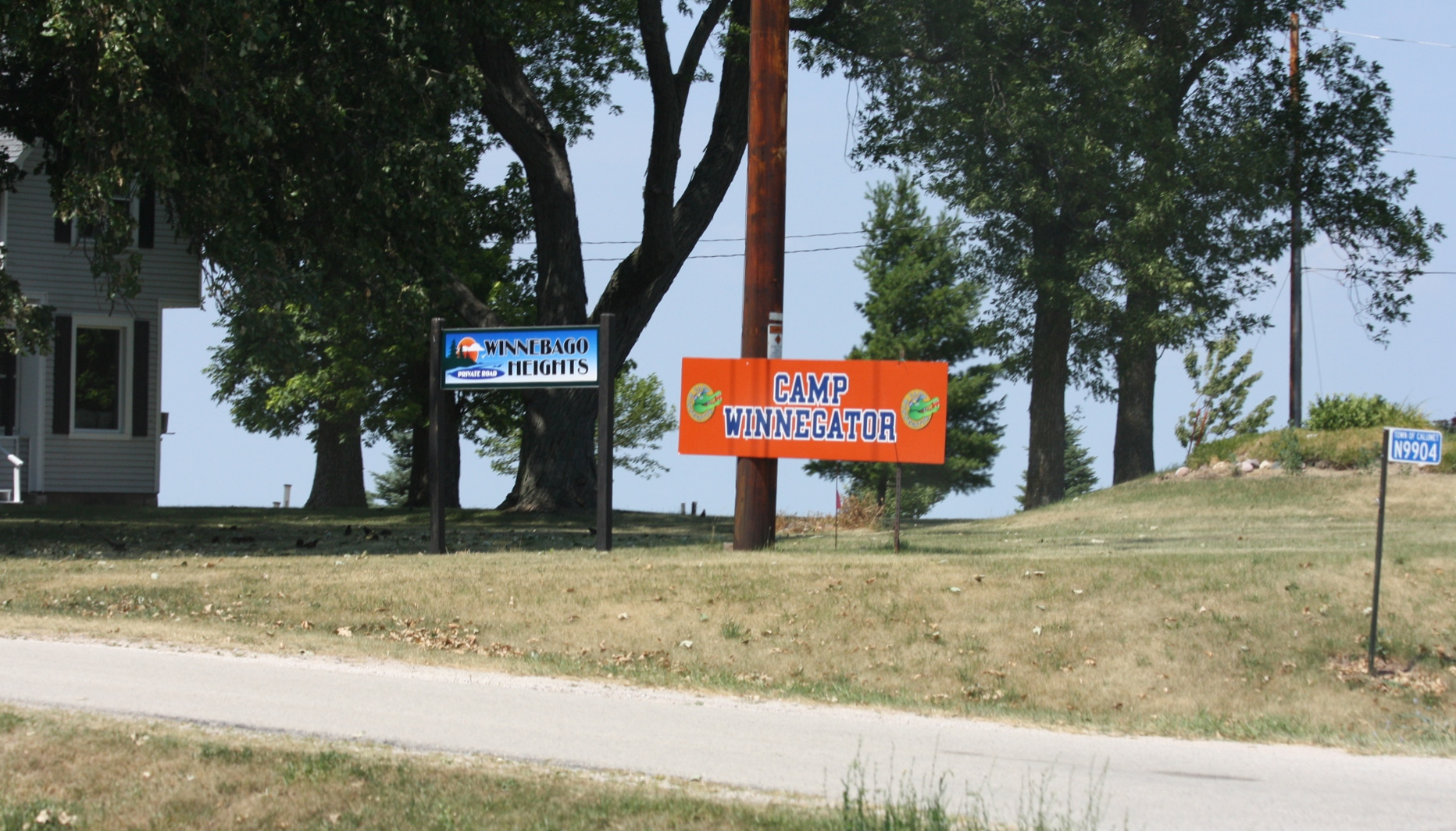 The sign for Winnebago Heights, Wisconsin from U.S Route 151.